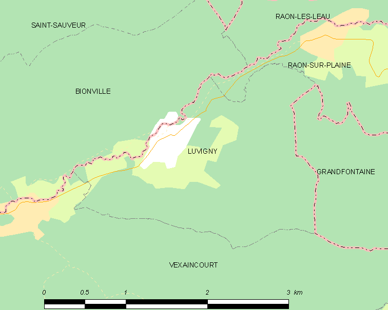 Map of French municipality Luvigny